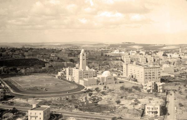 Jerusalem International YMCA